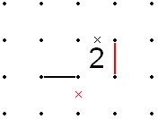 A partial Slitherlink game showing the knowledge gained when a line is adjacent to a 2 with a blank area.